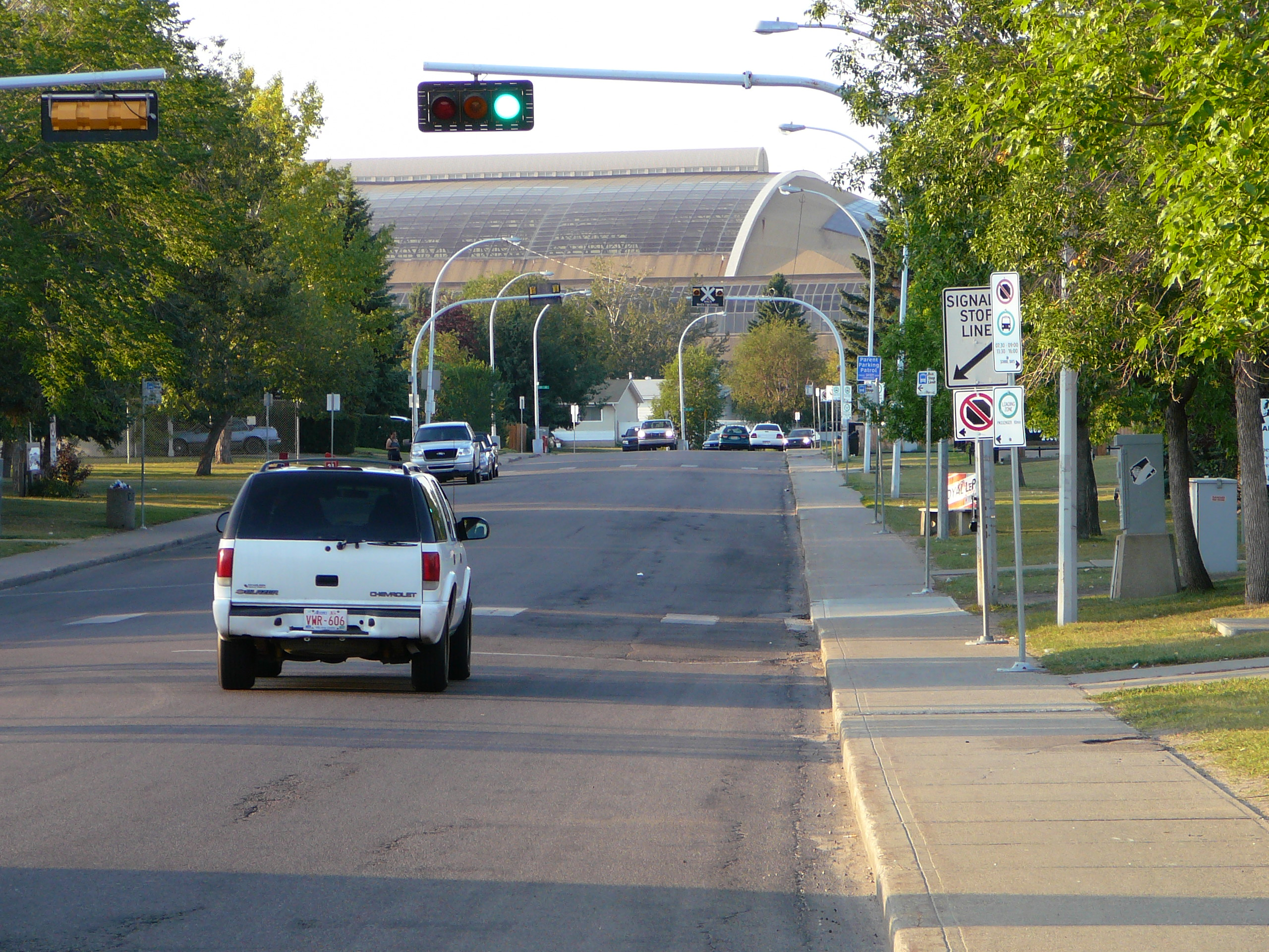 A residential street in the Edmonton neighbourhood of Thorncliff (175 Street). The building in the background is West Edmonton Mall.